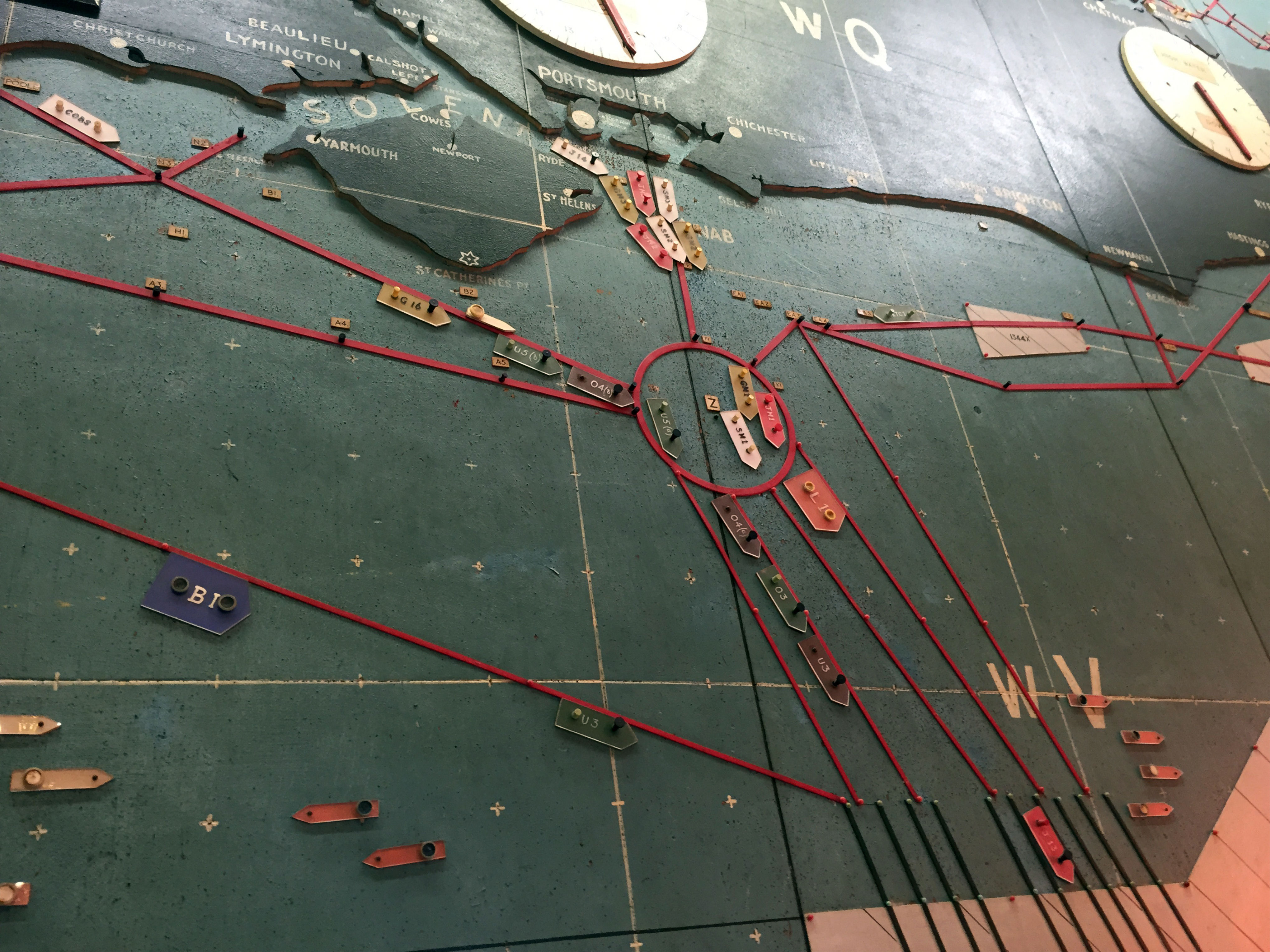 D-Day map at Southwick House; original map designed 1944 by HMG